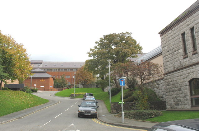 The Arfon District Council Offices